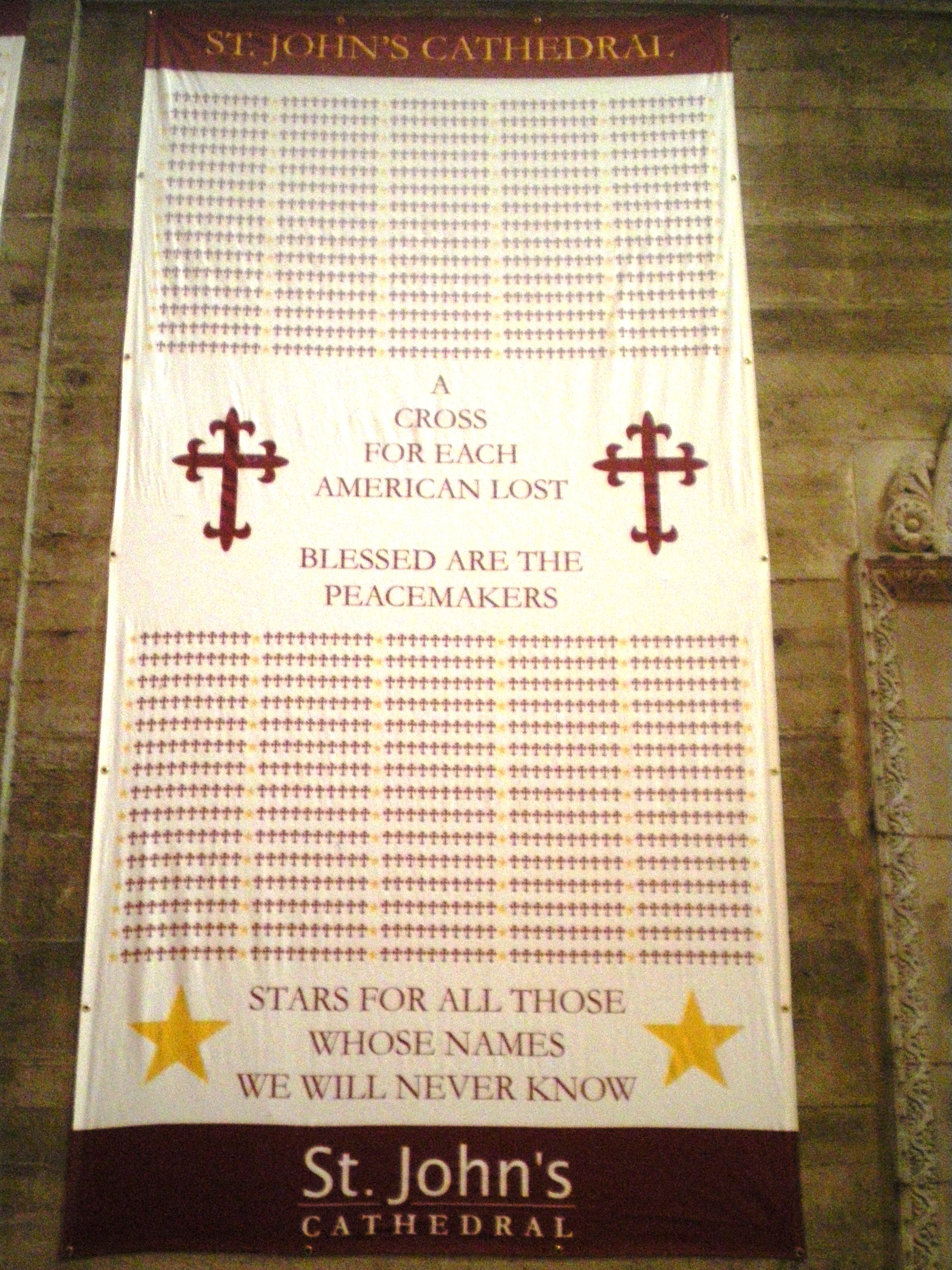 Banner for War Dead at St. John's Cathedral, Los Angeles, California